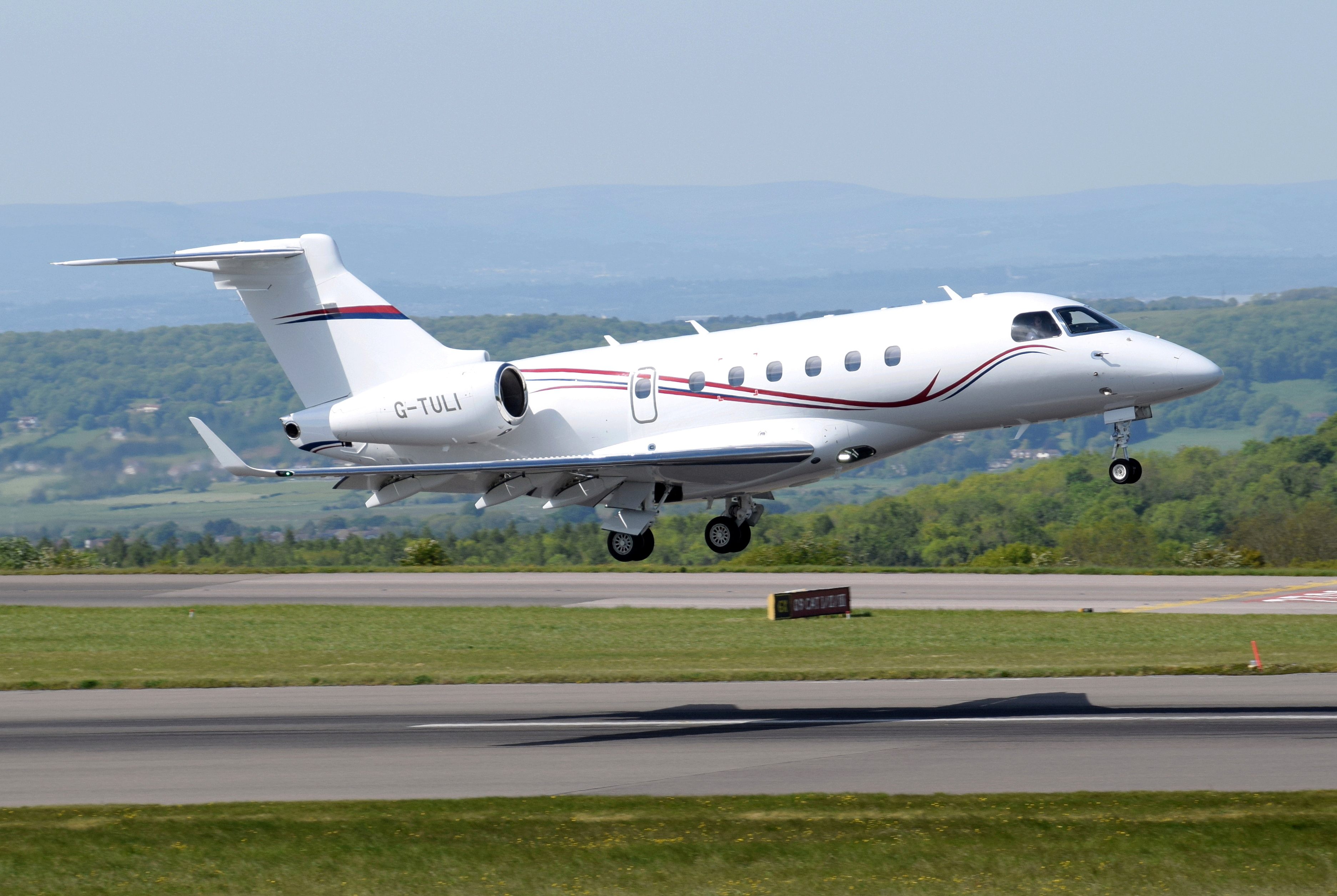 Embraer Legacy 500 business jet (G-TULI) lands at Bristol Airport, England.